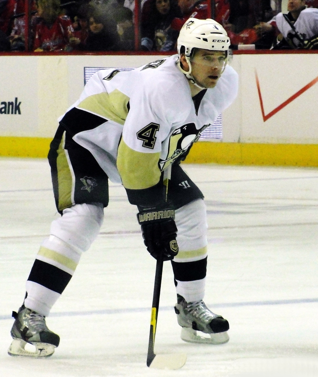 Zbynek Michalek of the Pittsburgh Penguins during a game against the Washington Capitals at Verizon Center in Washington DC. January 11, 2012.